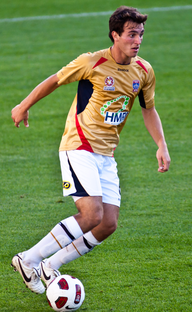 Ben Kantarovski playing for the Newcastle Jets in the 2010/11 A-League.